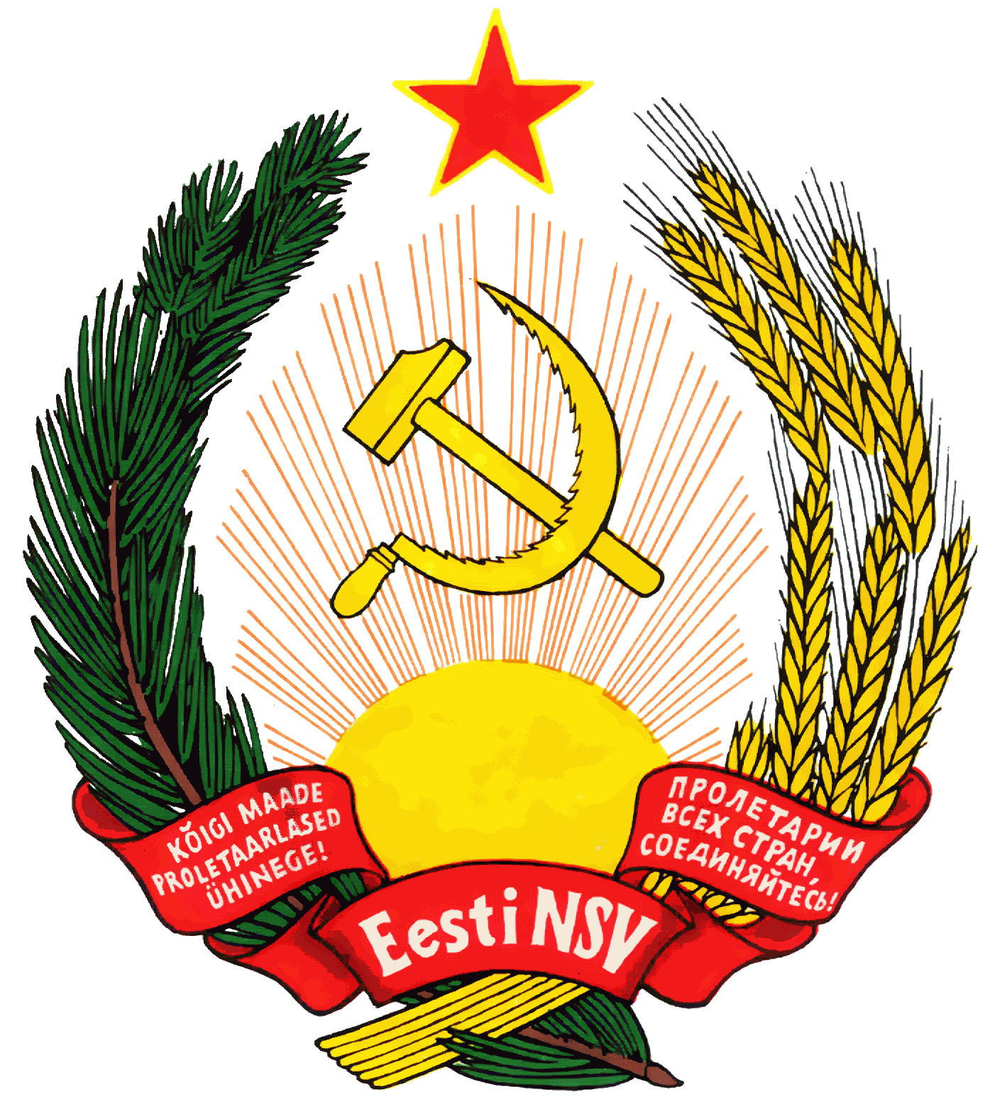 Coat of arms of Estonian SSR.